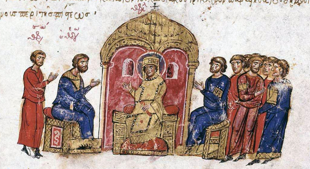 Argument about icons (from Skylitzis Chronicle, fol. 50vb)